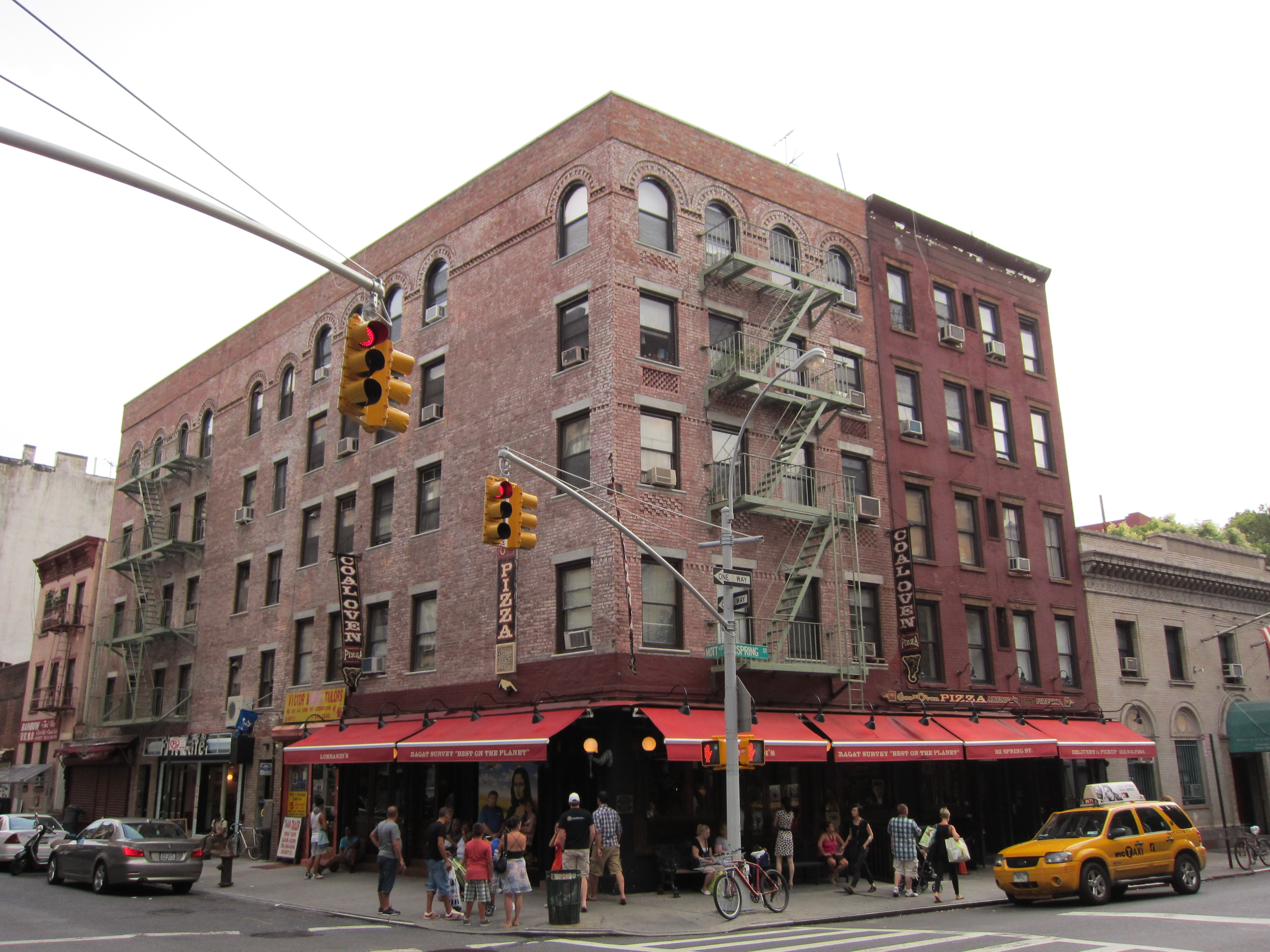 Lombardi's Pizza, 32 Spring Street, Manhattan, New York.